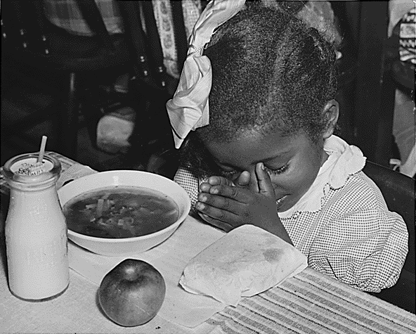 Young girl prays before eating school lunch of soup, sandwich, milk, and an apple. 1936. Part of U.S. Works Progress Administration Surplus Commodities: School Lunch Programs during the Great Depression.